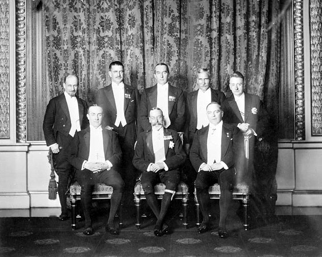 George V and his Prime Ministers at the 1926 Imperial Conference. The conference was the sixth Imperial Conference held amongst the Prime Ministers of the dominions of the British Empire. It was held in London from 19 October to 22 November 1926. It was notable as the conference that produced the Balfour Declaration, which established the principle that the dominions are all equal in status, and not subordinate to the United Kingdom.George V (seated, centre) with Rt. Hon. Stanley Baldwin (United Kingdom; seated left), Rt. Hon. W.L. Mackenzie King (Canada; seated right). Standing Rt. Hon. Walter Stanley Monroe (Newfoundland), Rt. Hon. Gordon Coates (New Zealand), Rt. Hon. Stanley Bruce (Australia), Rt. Hon. J. B. M. Hertzog (Union of South Africa) and W.T. Cosgrave (Irish Free State).